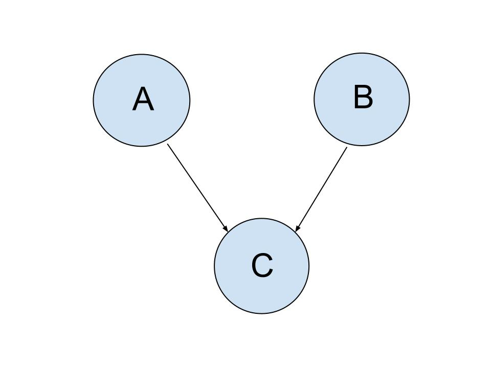 This picture illustrates an example case of conditional dependence used in the article.